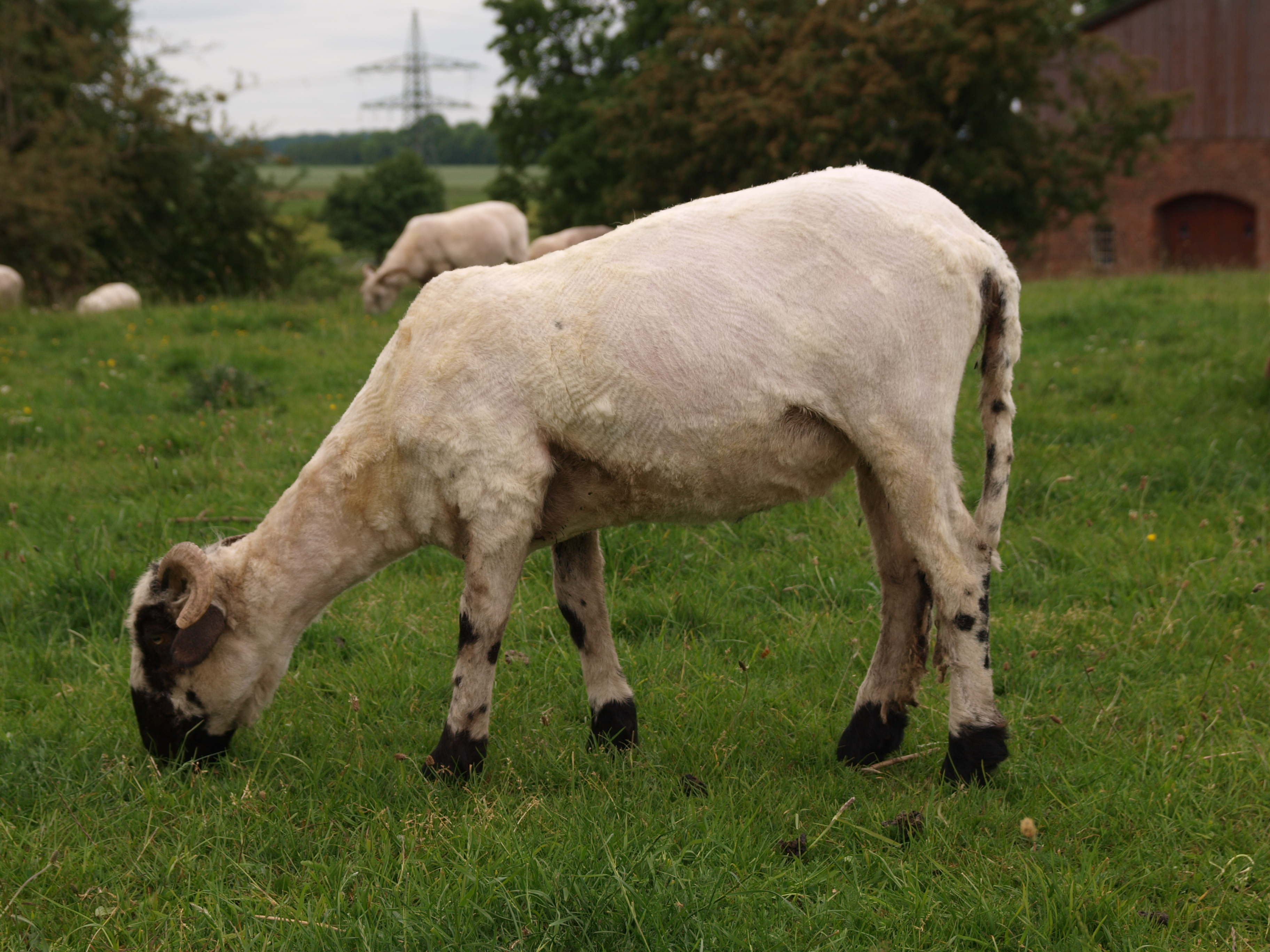 Freshly shorn female Valais Blacknose Sheep